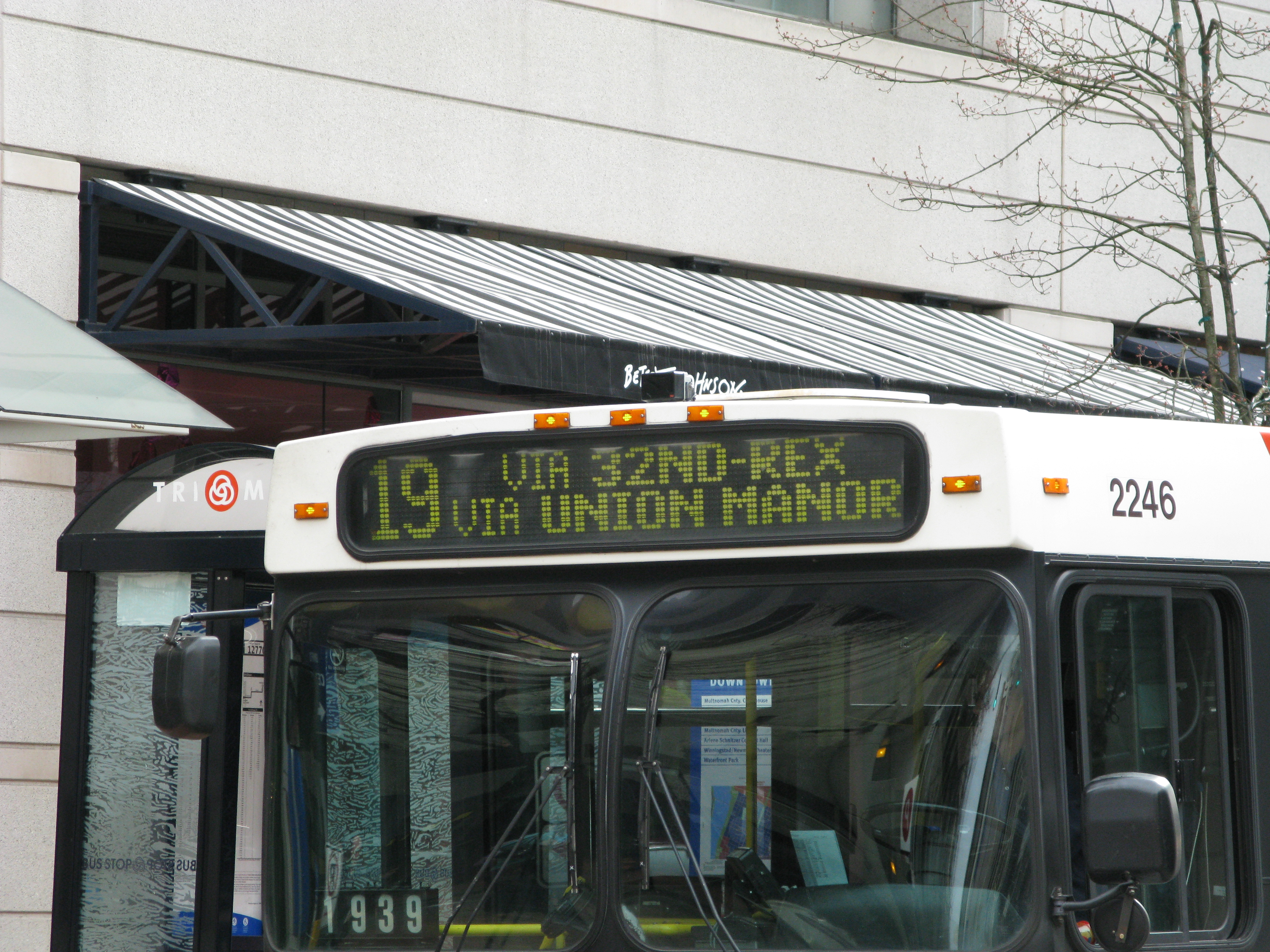 Bus destination sign of the flip-dot type, here seen in TriMet (Portland, Oregon) bus 2246, a 1998 New Flyer D40LF, on line 19-Woodstock, which has various routing alternatives. This particular sign (specified by the buyer of the bus, not the bus manufacturer) is a MegaMax model, by Luminator.